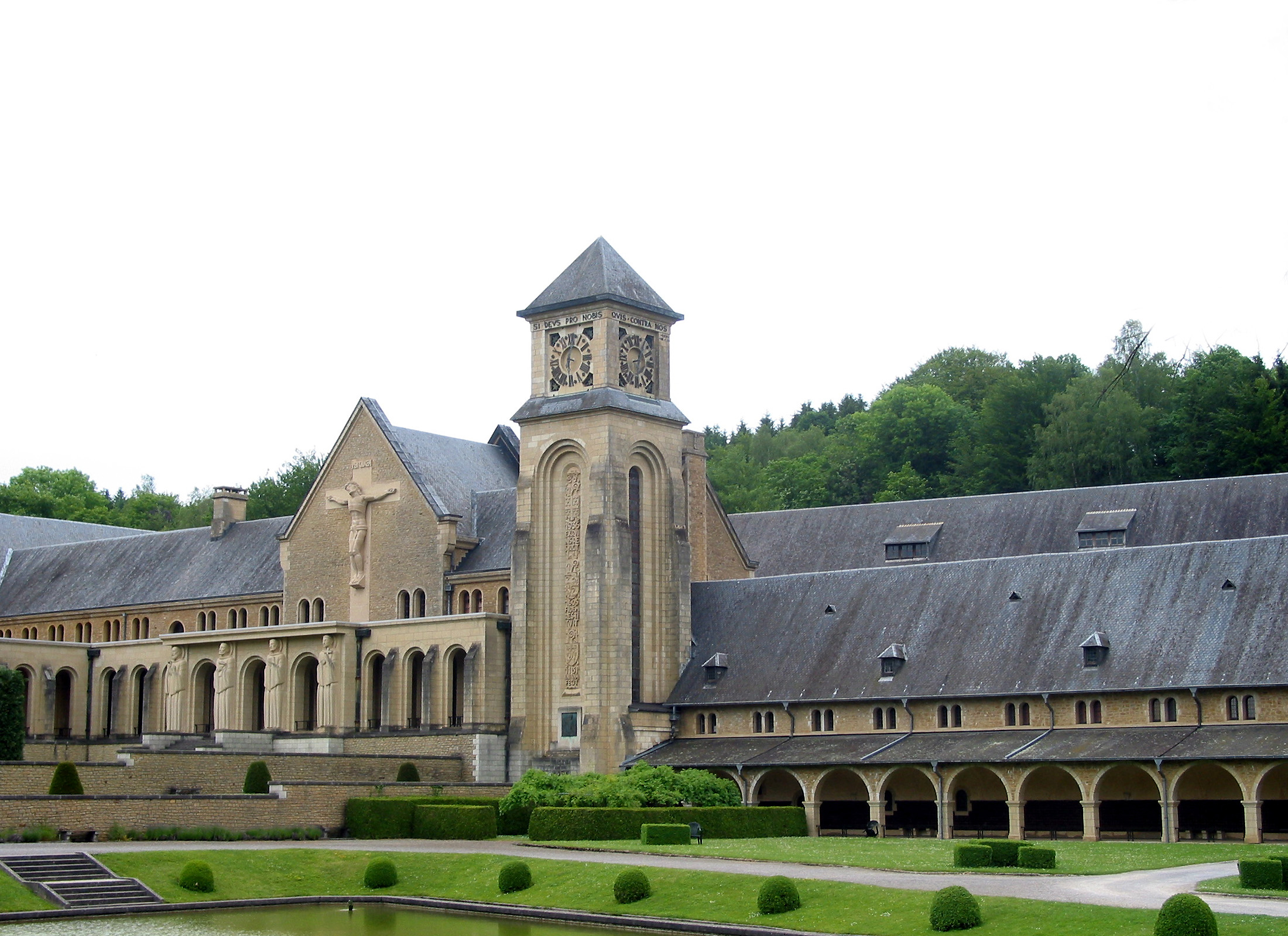 The new Orval Abbey, Belgium (1948)